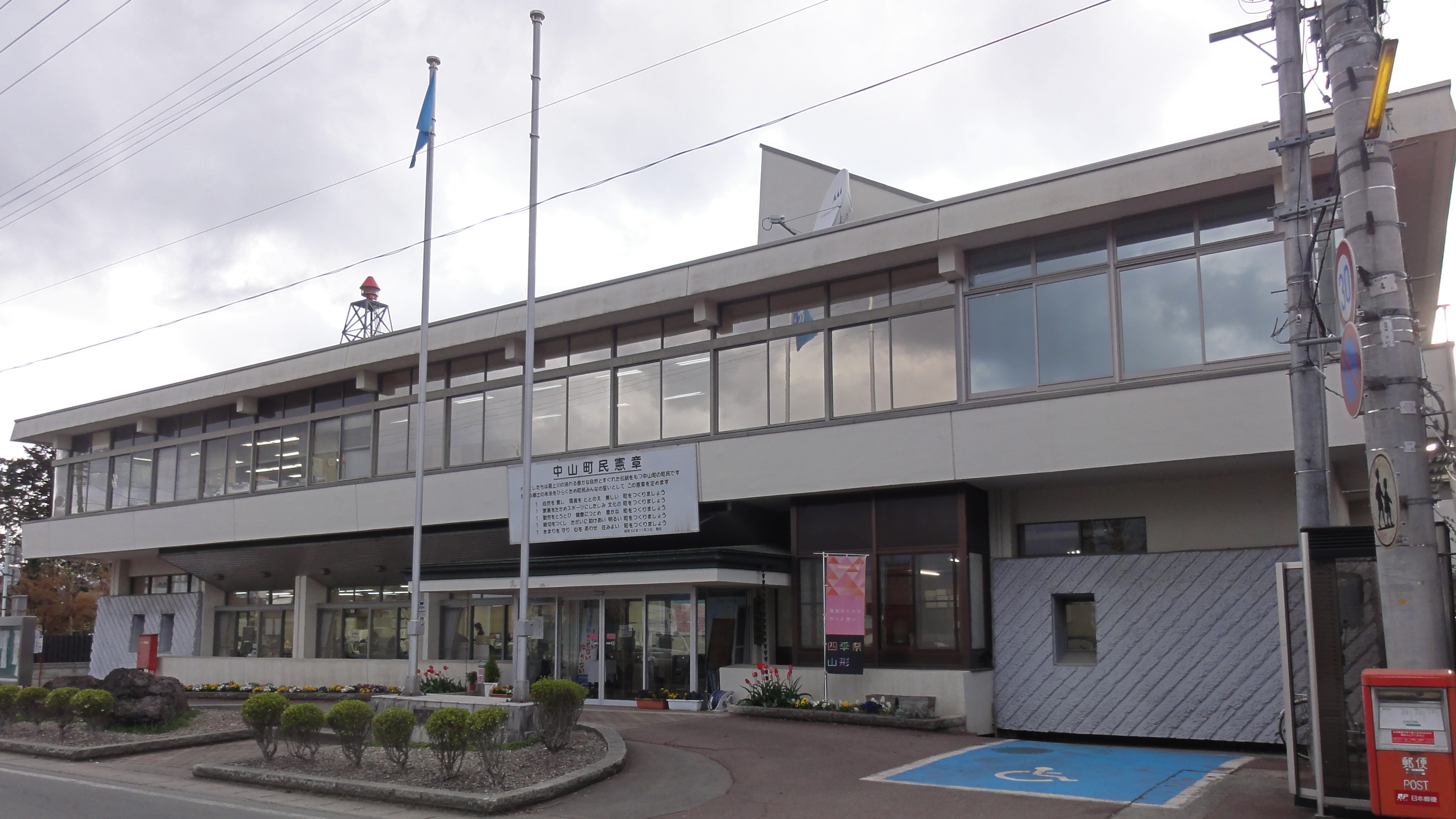 Nakayama town office,Yamagata prefecture,Japan